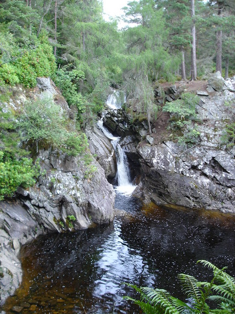 Falls of Bruar. The ever popular dog walk to the Falls of Bruar, in the neighbourhood of the lower bridge.